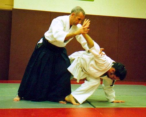 Aikido: nikyo omote (second principle); dojo of Maisons-Alfort (Val-de-Marne, France); tori: Frank Dauvé (1965-03-10 – 2016-02-10); aite: Christophe Dang Ngoc Chan (cdang)